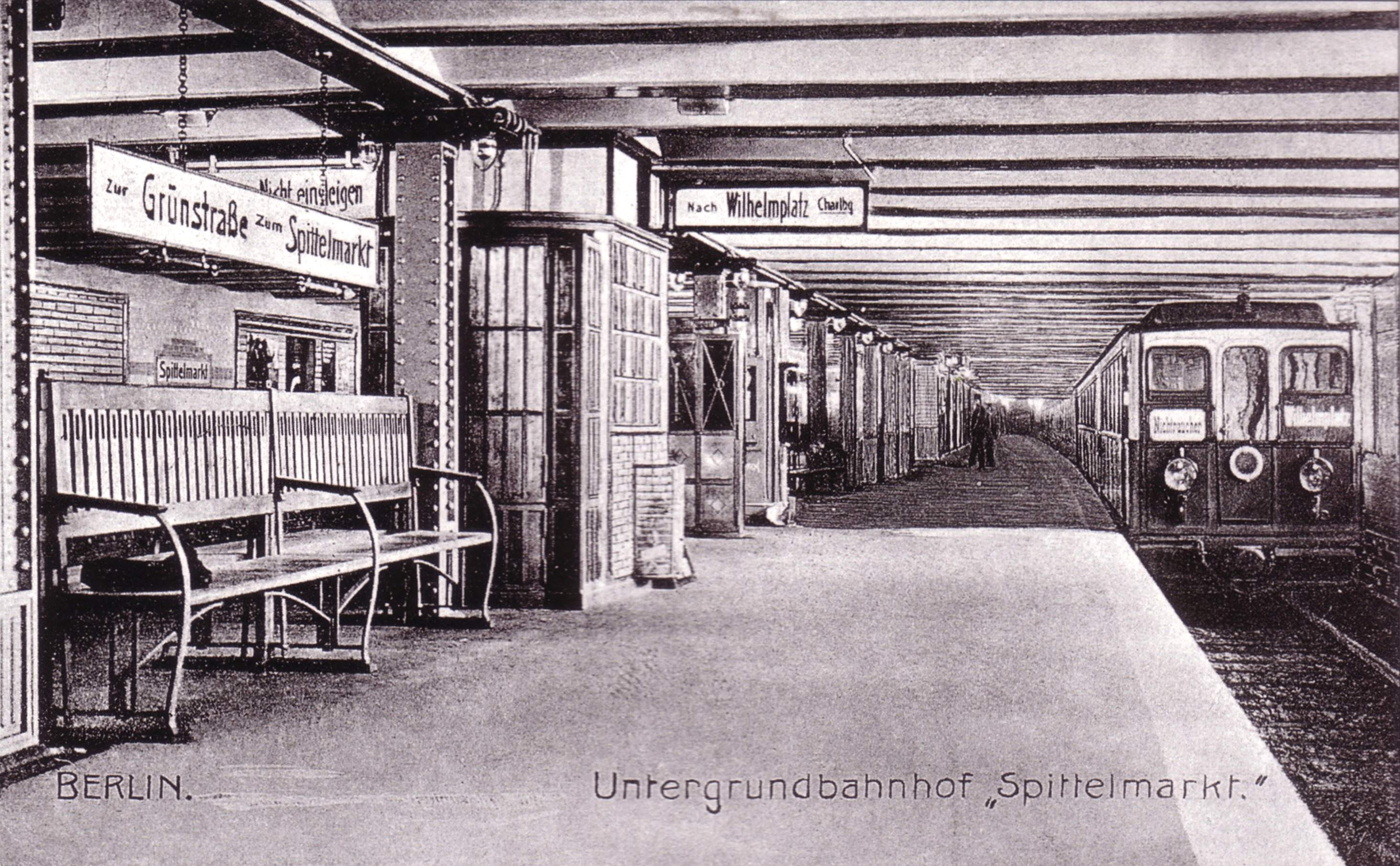 The Berlin U-Bahn station Spittelmarkt, line U2